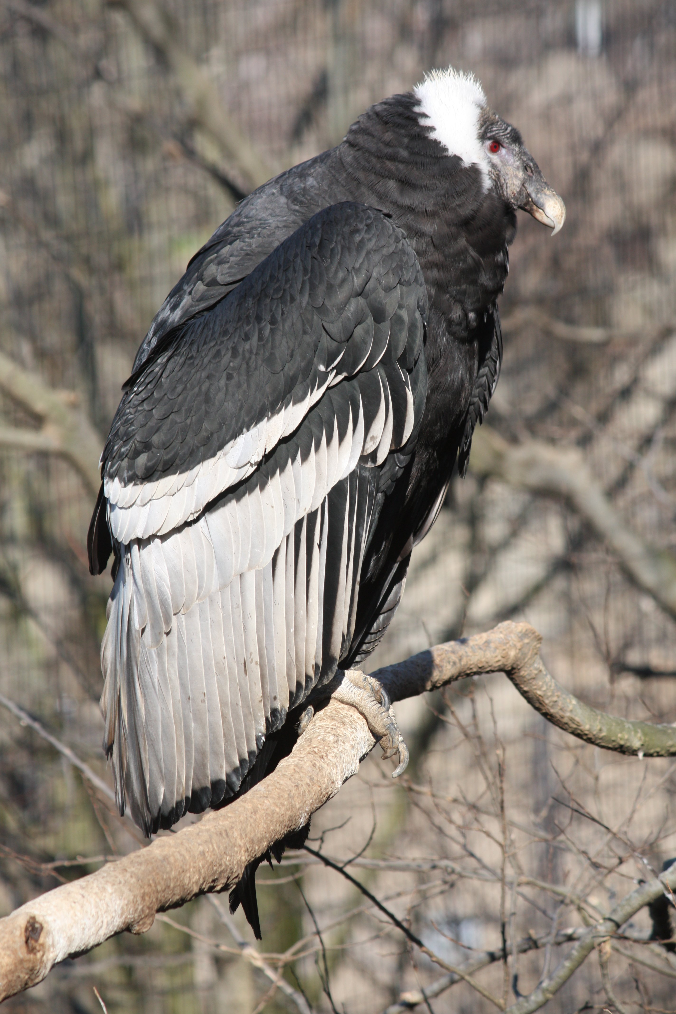 Vultur gryphus at Cincinnati Zoo